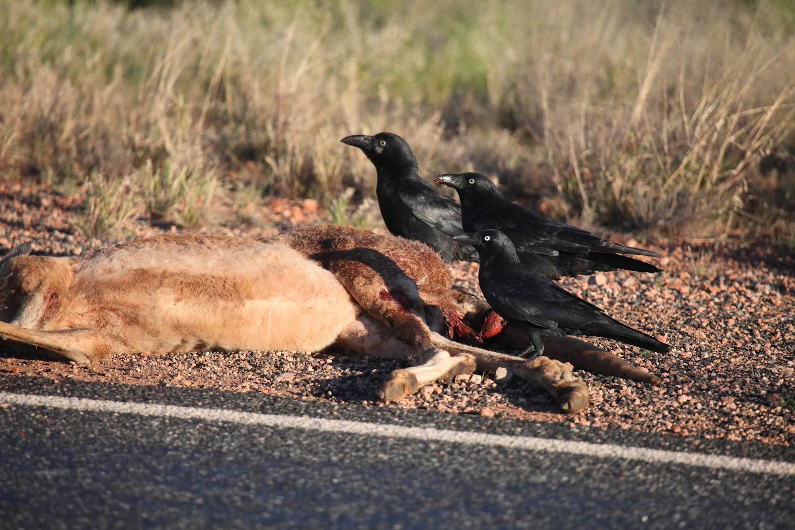 Little Crow (Corvus bennetti), Northern Territory, Australia